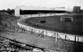 The brand New Stamford Bridge stadium in Chelsea, West London, in August 1905 at the start of the first season for Chelsea FC